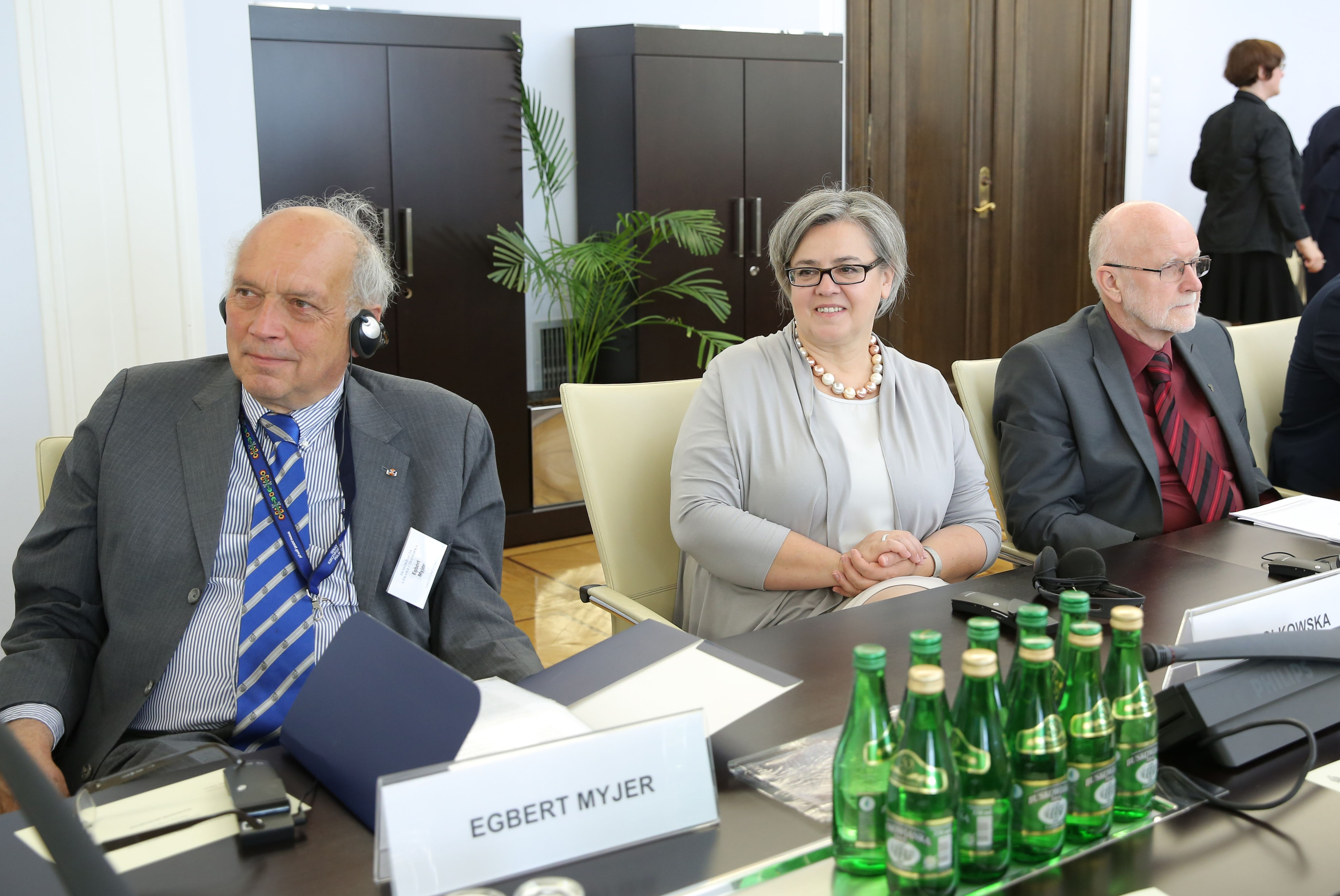 Egbert Myjer during the conference "Democracy and Human Rights. Role of National Parliaments in implementation of European Convention on Human Rights and the rulings of the European Court of Human Rights" in the Polish Senate